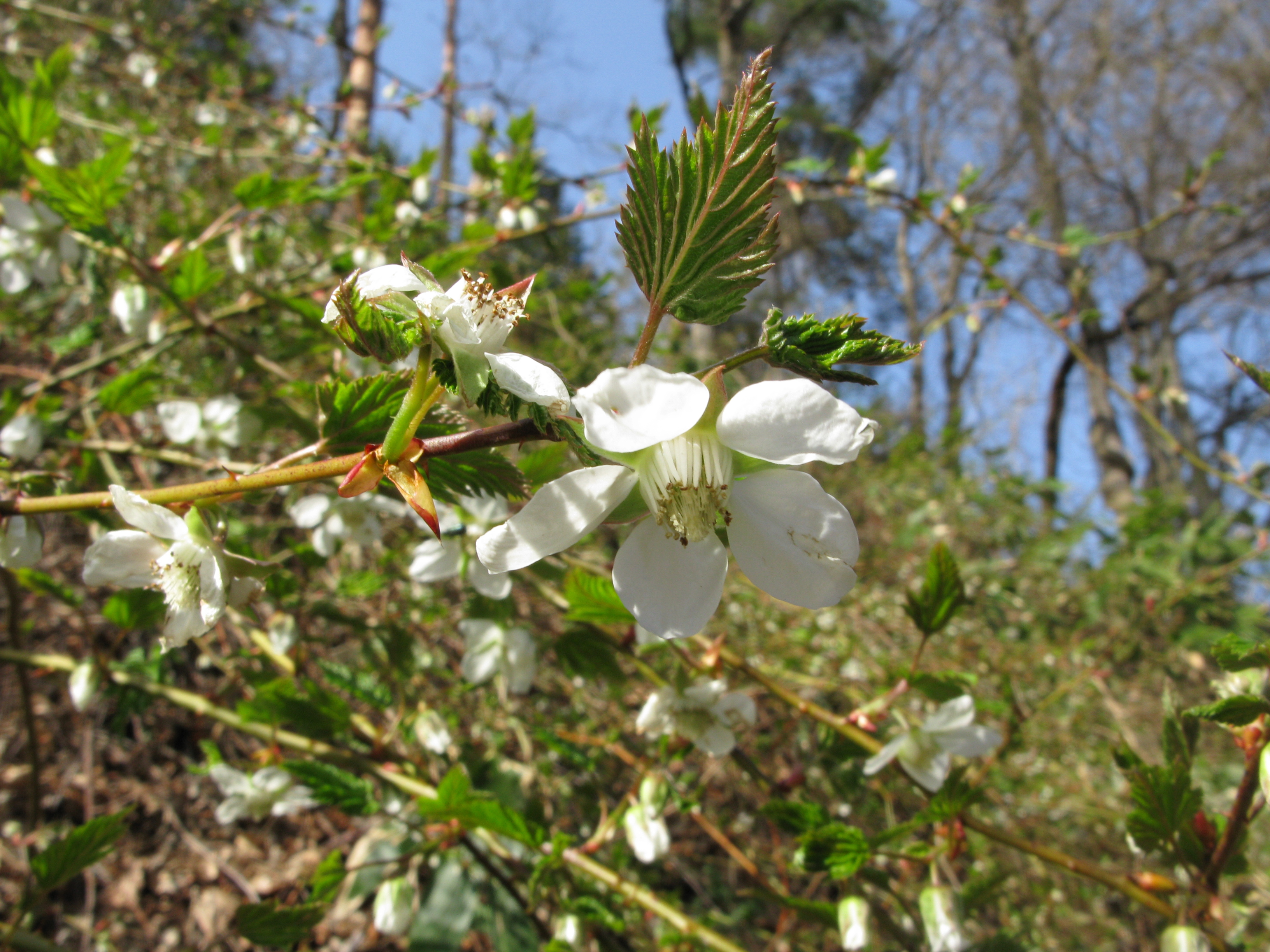 Rubus palmatus var. coptophyllus, Aizu area, Fukushima pref., Japan